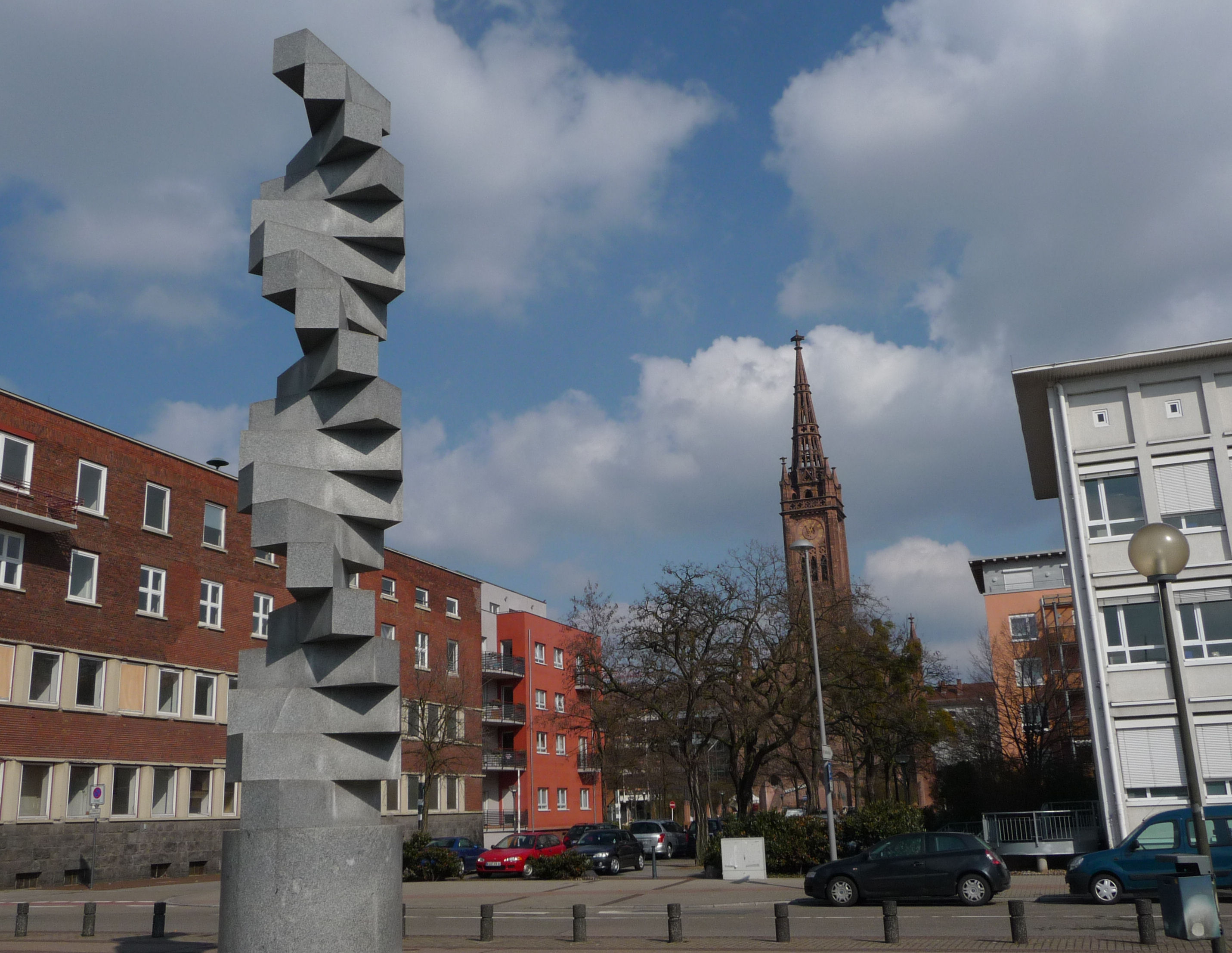 Art in Ludwigshafen, Germany